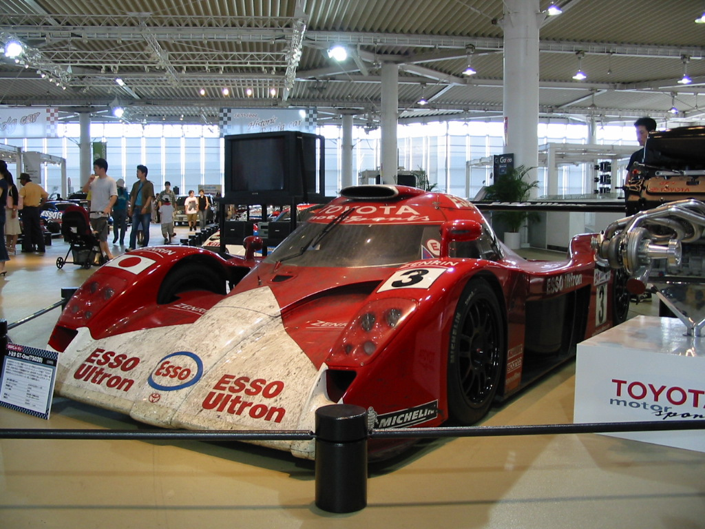 Toyota_TS020(1999 spec) taken in Showroom of Toyota -MEGAWEB